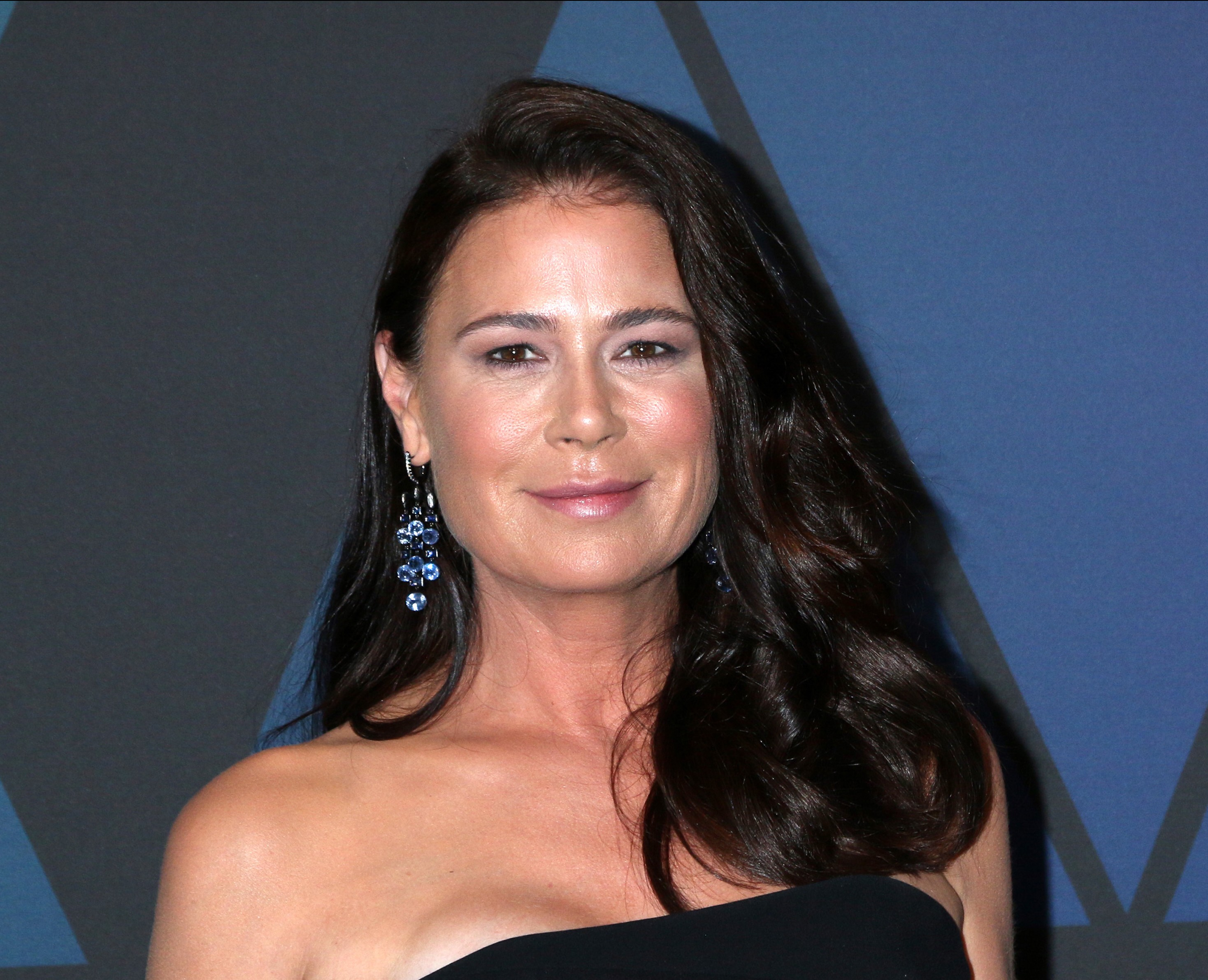 American actress Maura Tierney